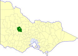 Location of the former Shire of Kara Kara within Victoria.